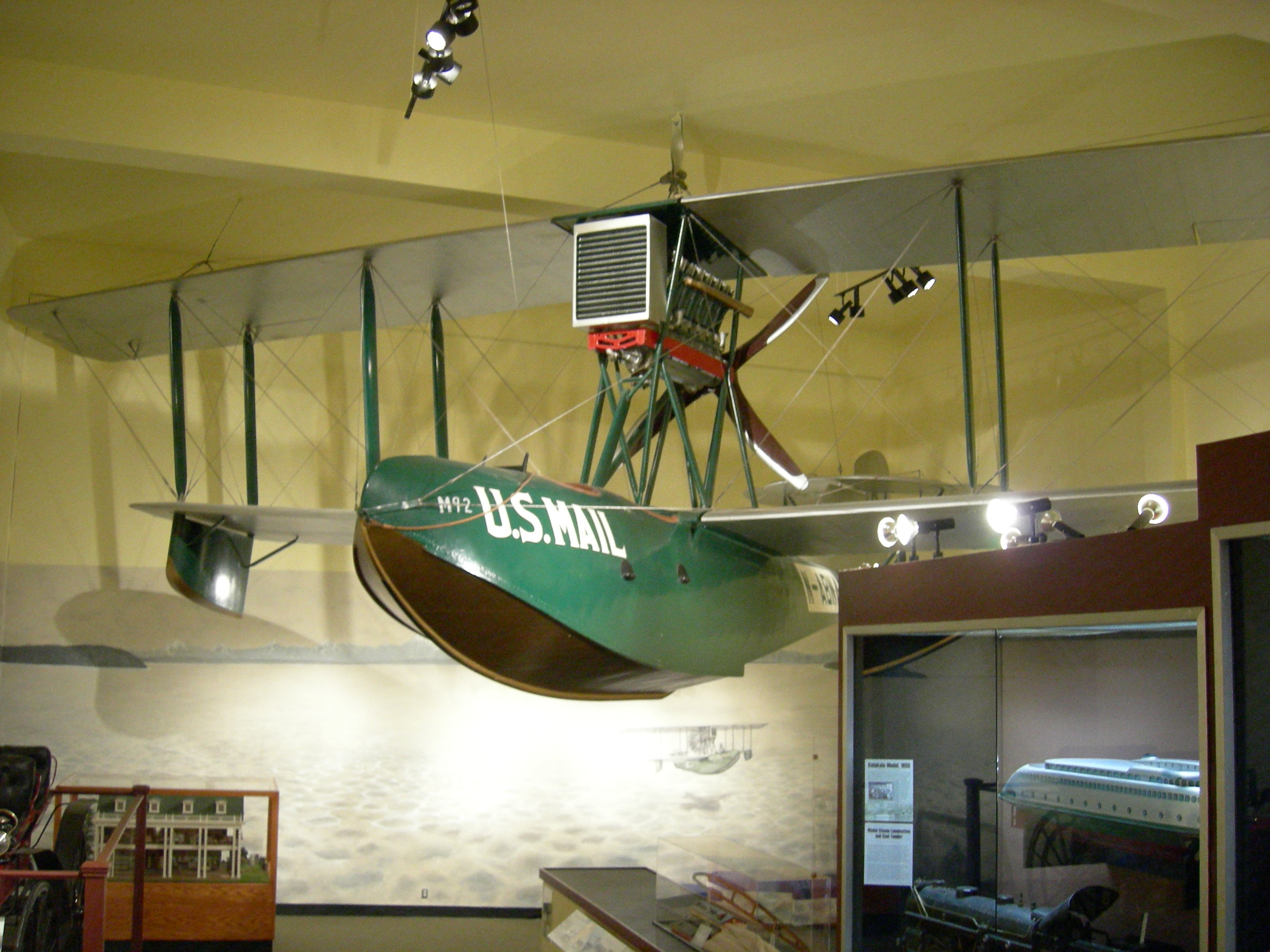 Boeing B-1 float plane, the first commercial plane made by Boeing. (Photograph taken at the museum's former location in the Montlake neighborhood.) Museum of History and Industry (MOHAI), Seattle, Washington.